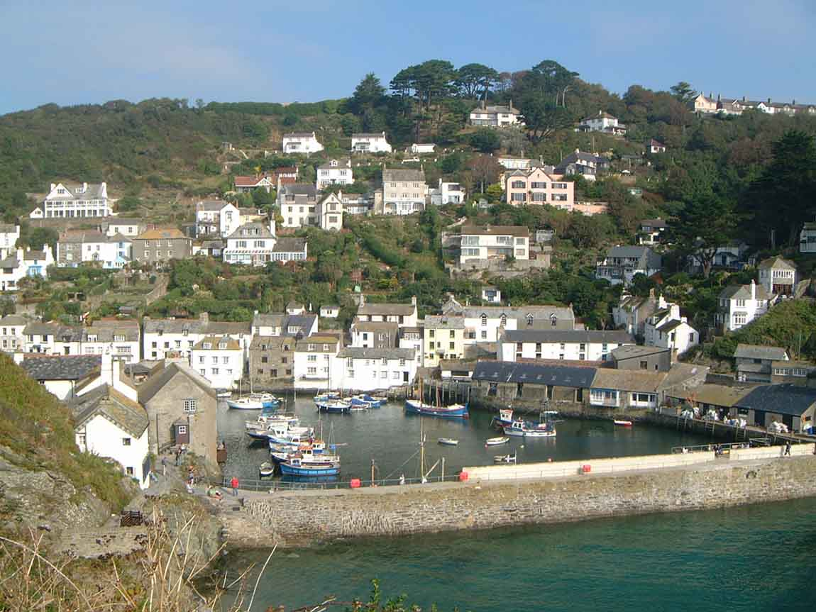 Polperro, also in Cornwall, has been an active fishing and smuggling port since the twelfth century CE.